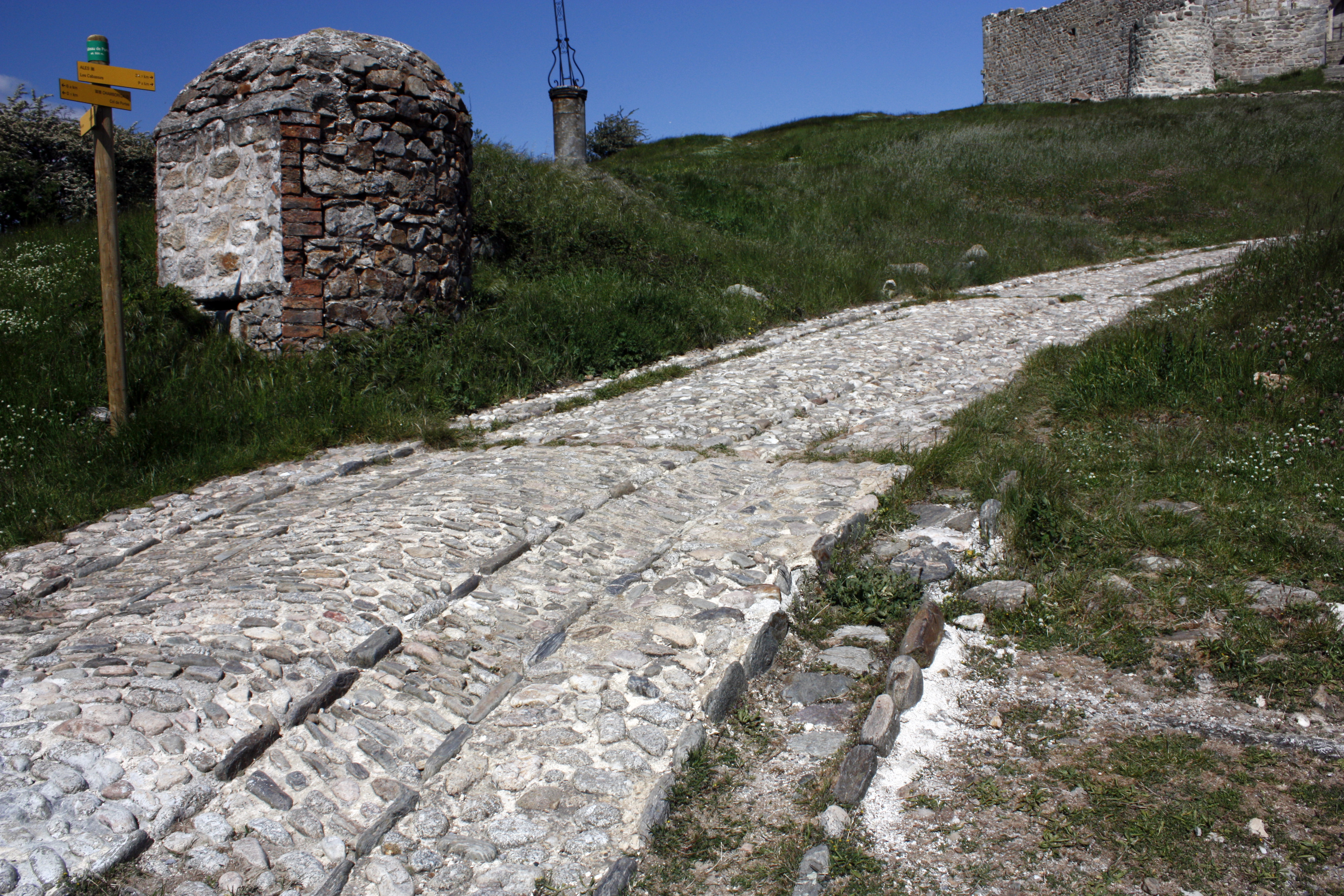 The path passes an old well (walled). A fine example of a medieval technique that can be found in different castles: The pavement is made by a "calade," in which two swales will prevent that from getting out of the cart path. At the middle, a bridle path is made of stones tilted slightly forward to help the horses. At regular intervals a small channel cross the road to conduct runoff to a wide lateral groove to prevent the destruction of the climbing.